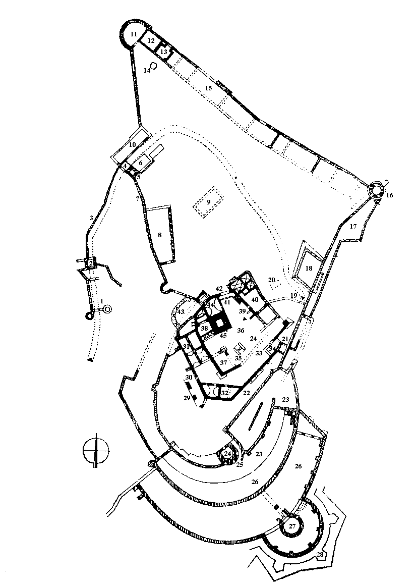 The plan of Trenčín Castle in Trenčín, Slovakia.